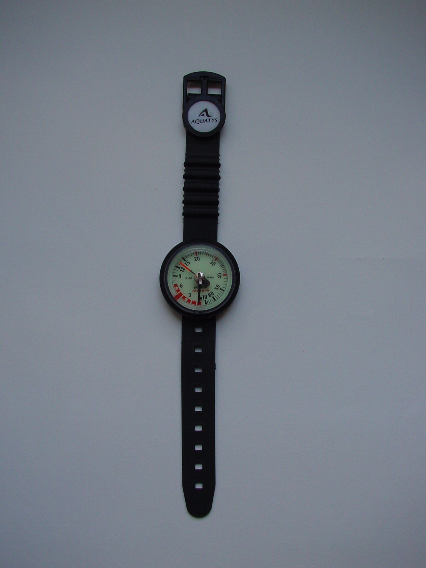 Diver's analogue depth gauge